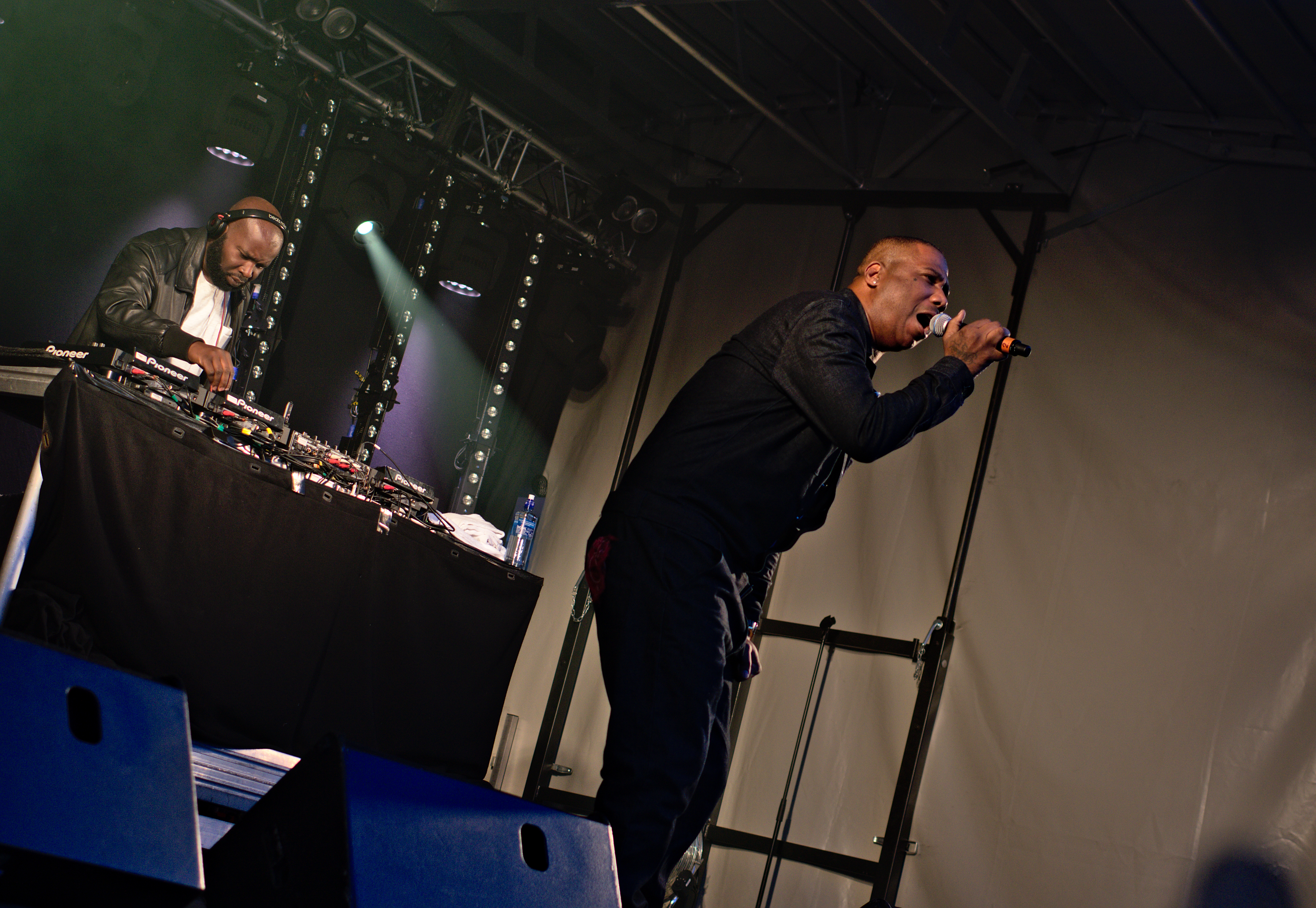 Swingfly performing in Eskilstuna, Sweden.